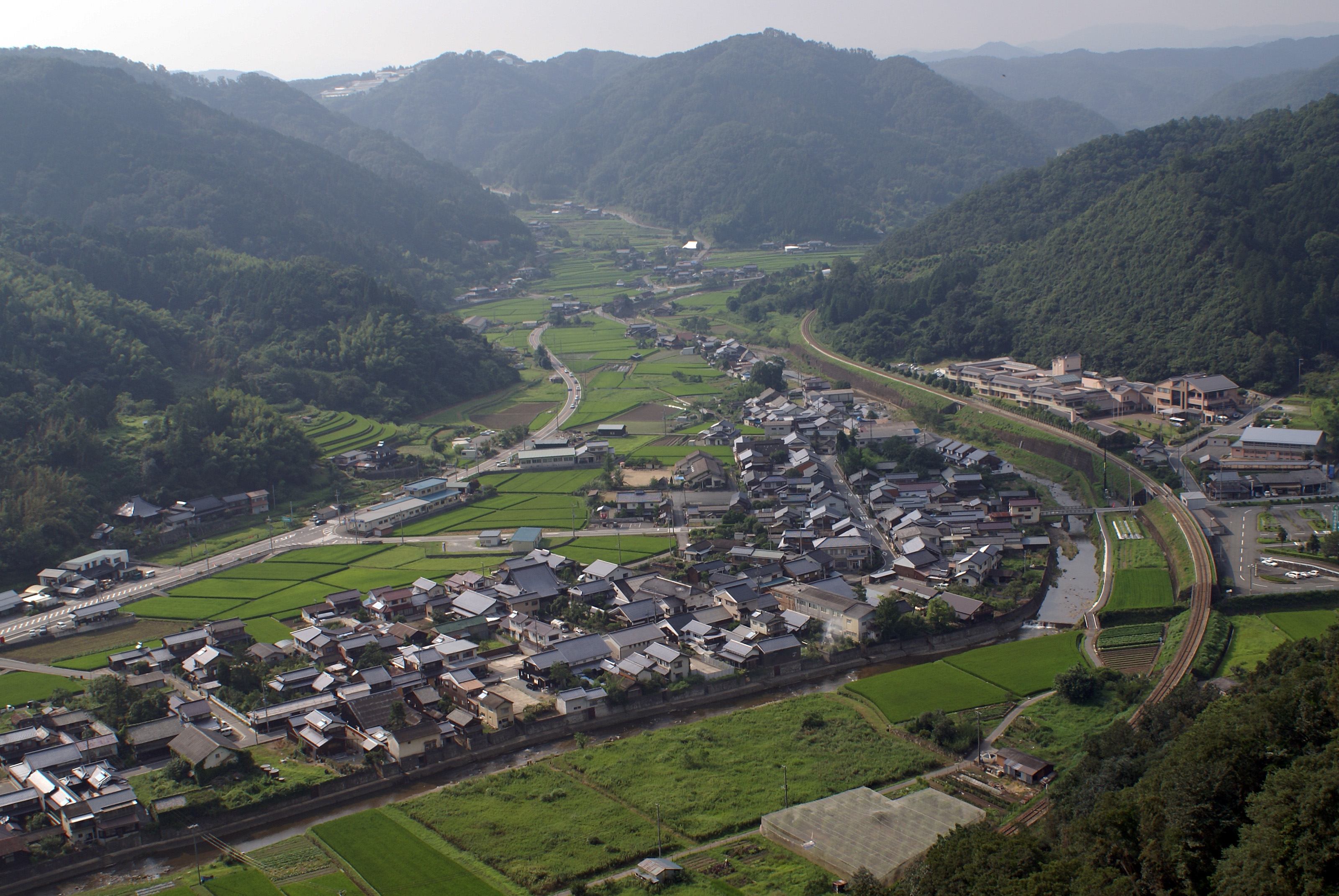 Hirafuku in Sayo, Hyogo prefecture, Japan